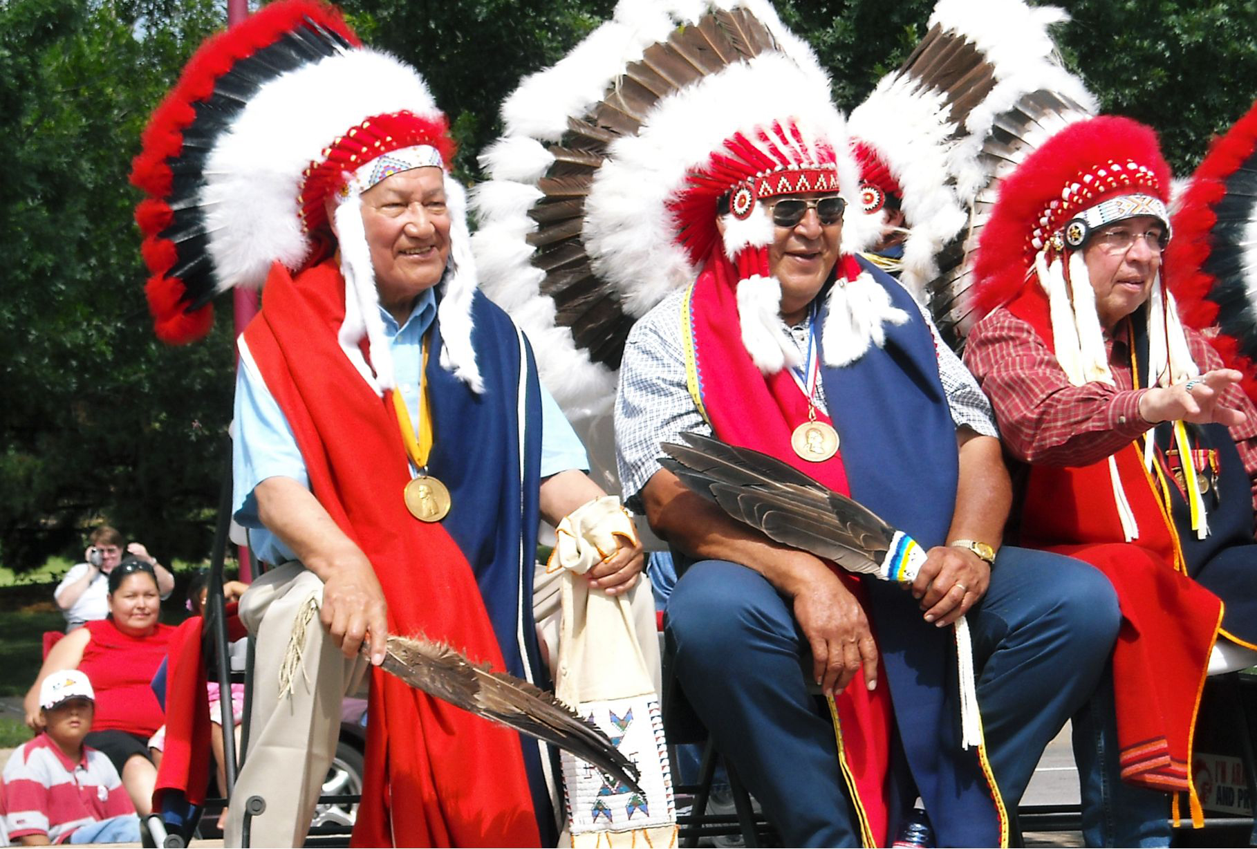 Cheyenne Peach Chiefs Lawrence Hart, Darryl Flyingman and Harvey Pratt wave to the crowds during the Red Earth Parade to celebrate the opening of the Red Earth Native American Cultural Festival.